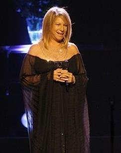 Barbra Streisand in concert, o2 Arena, London